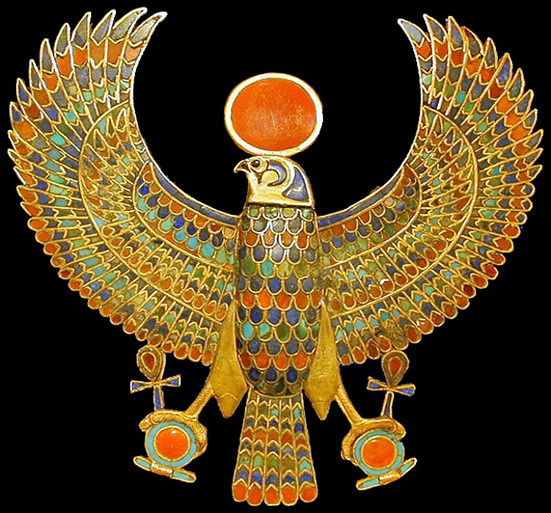 A jewelled falcon of Tutankhamun holding the 'ankh' or sign for life in Ancient Egypt.